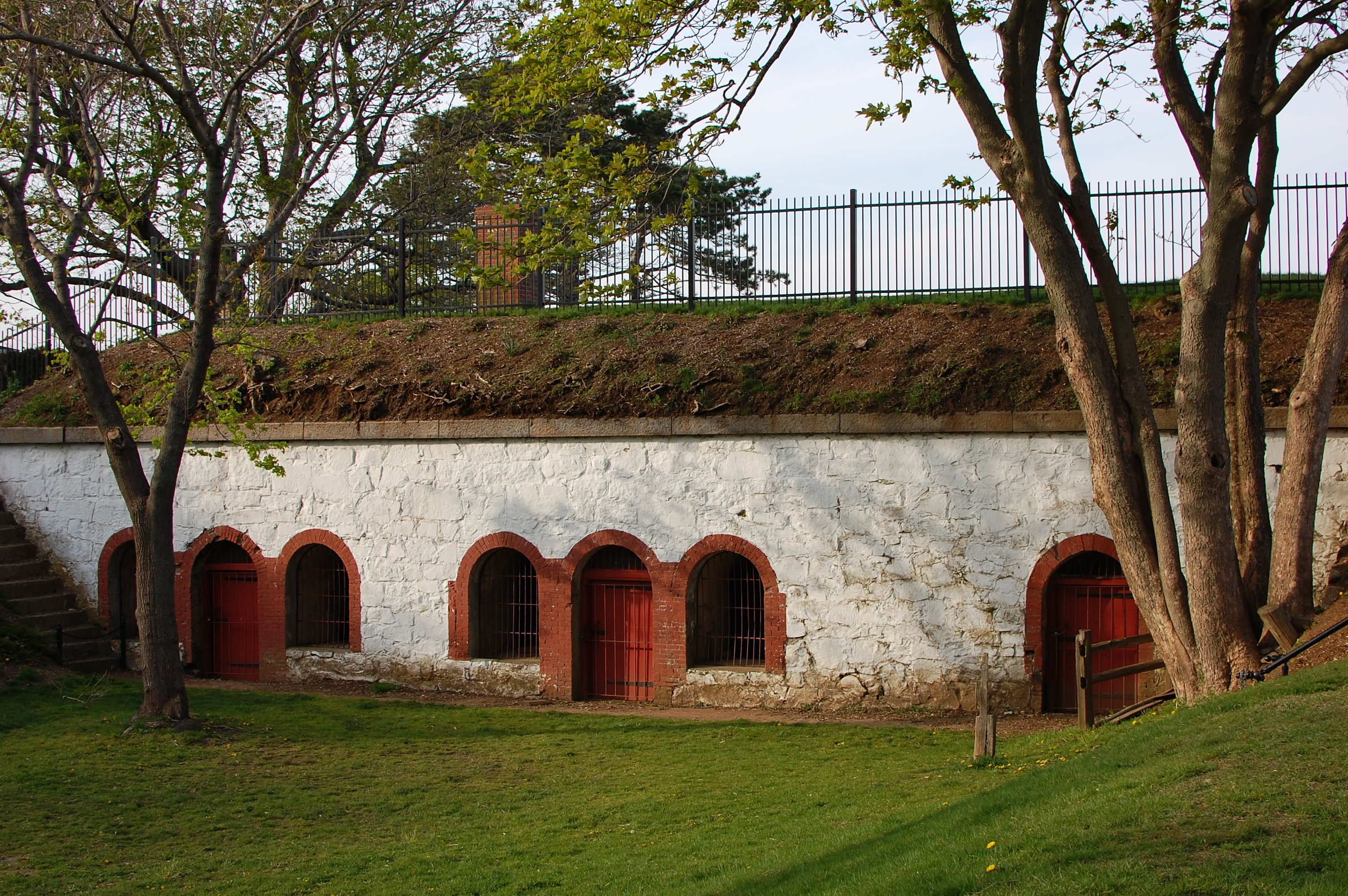 The underground stockade and storage facilities of Fort Sewall, Marblehead, Massachusetts.